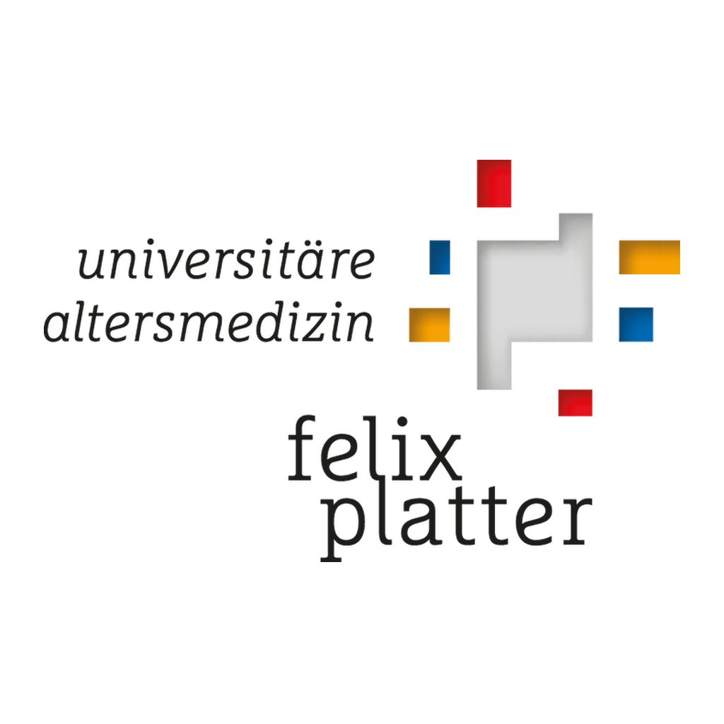 Logo Universitäre Altersmedizin FELIX PLATTER